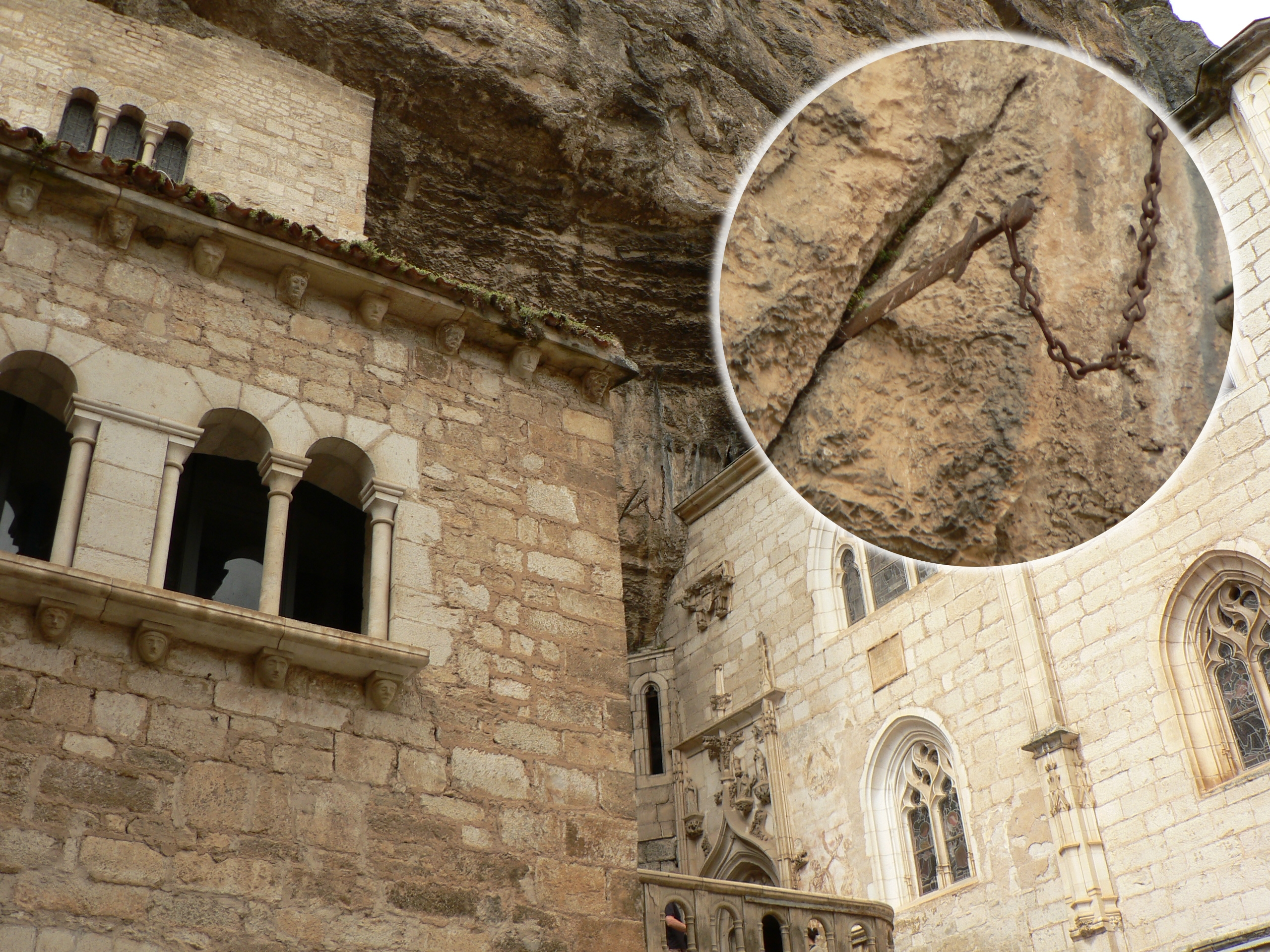 Rocamadour, France, Durandal